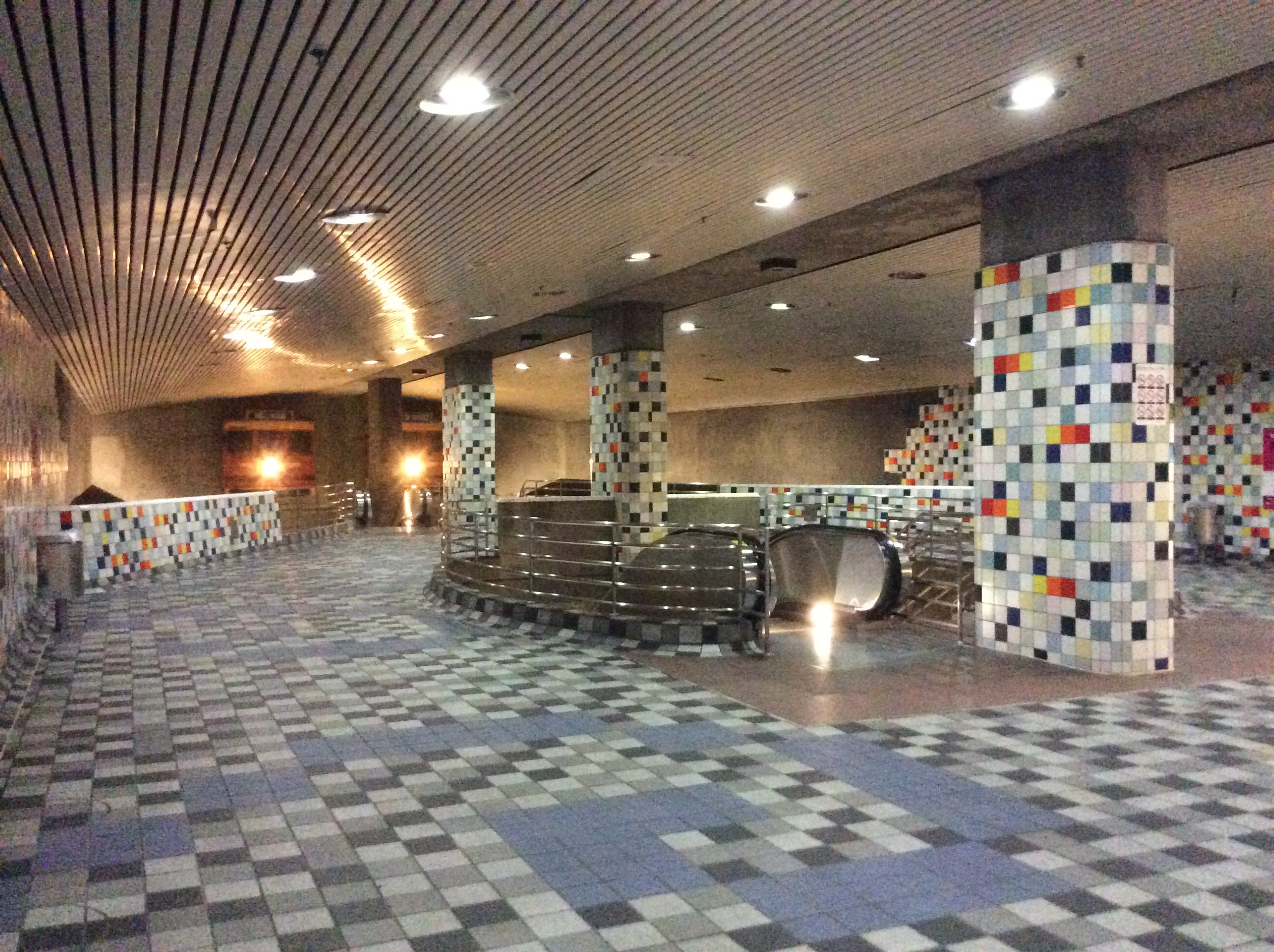 The Upper Floor view of the Hollywood/Western Station.